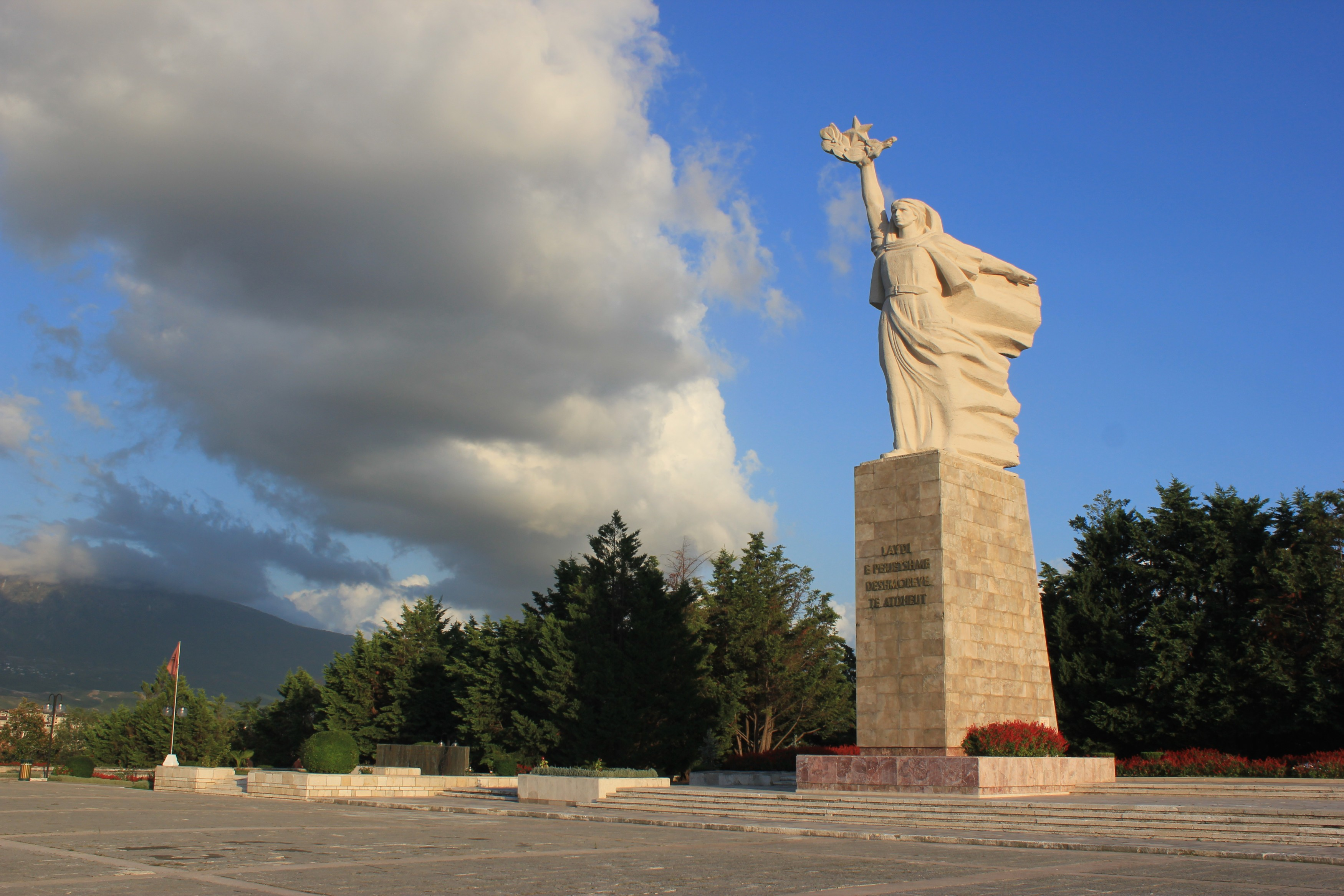 "Mother Albania" in Tirana. Text: Lavdi e Përjetshme Dëshmorëve të Atdheut = Eternal Glory to the Martyrs of the Fatherland.